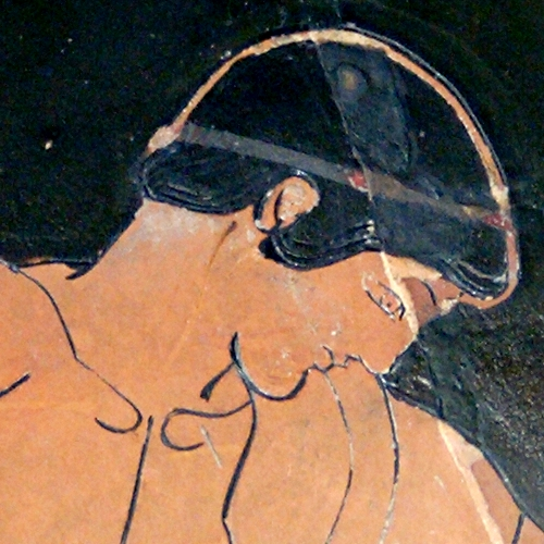 Male head, detail from a scene representing a youth playing with a hare. Tondo from an Attic red-figure plate, ca. 480 BC.